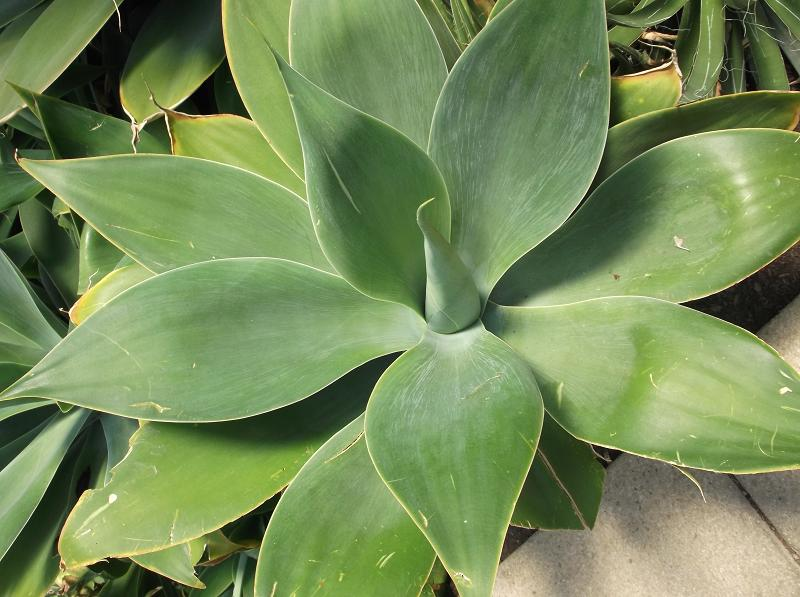 Agave attenuata in Kew Gardens, England.